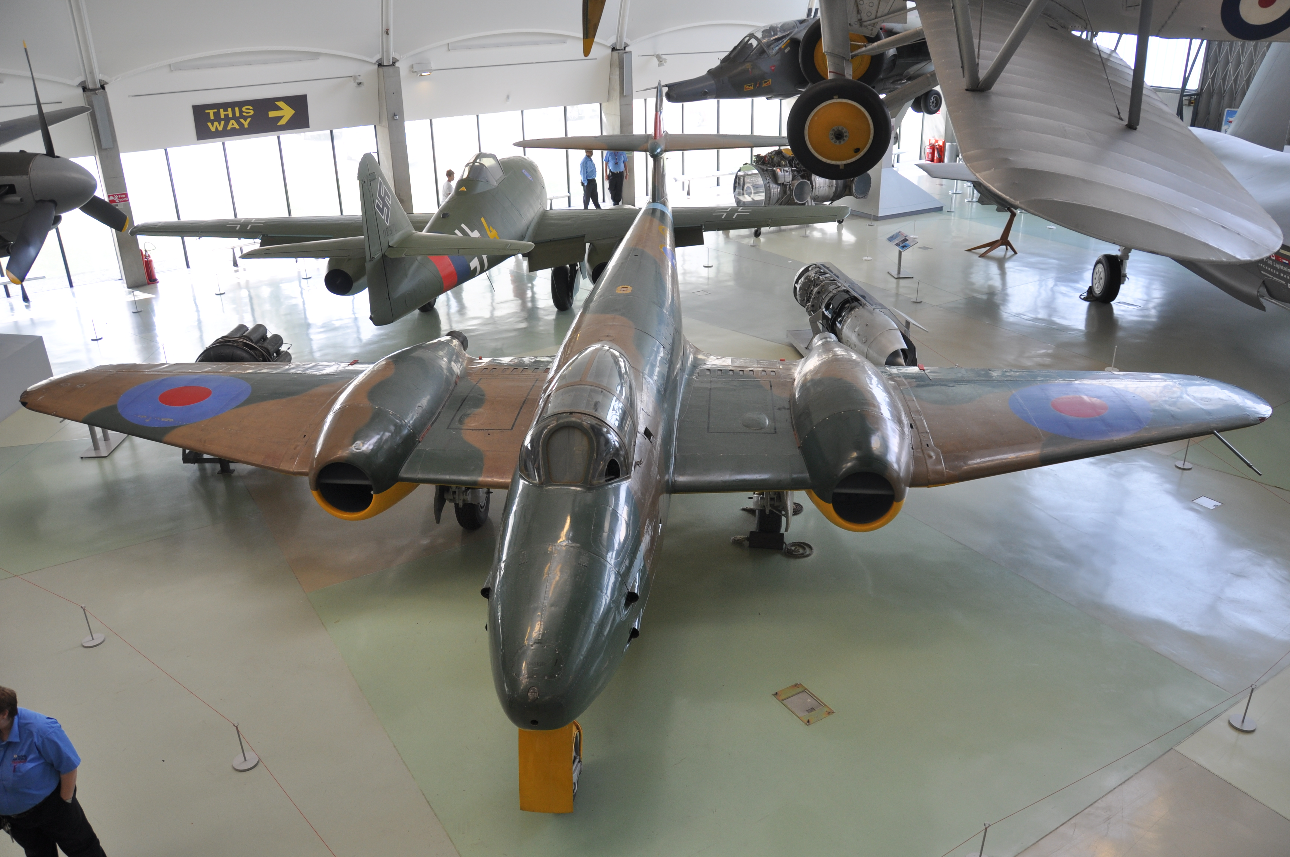 Pictures from RAF Museum, Hendon Gloster Meteor jet fighter forward view from above